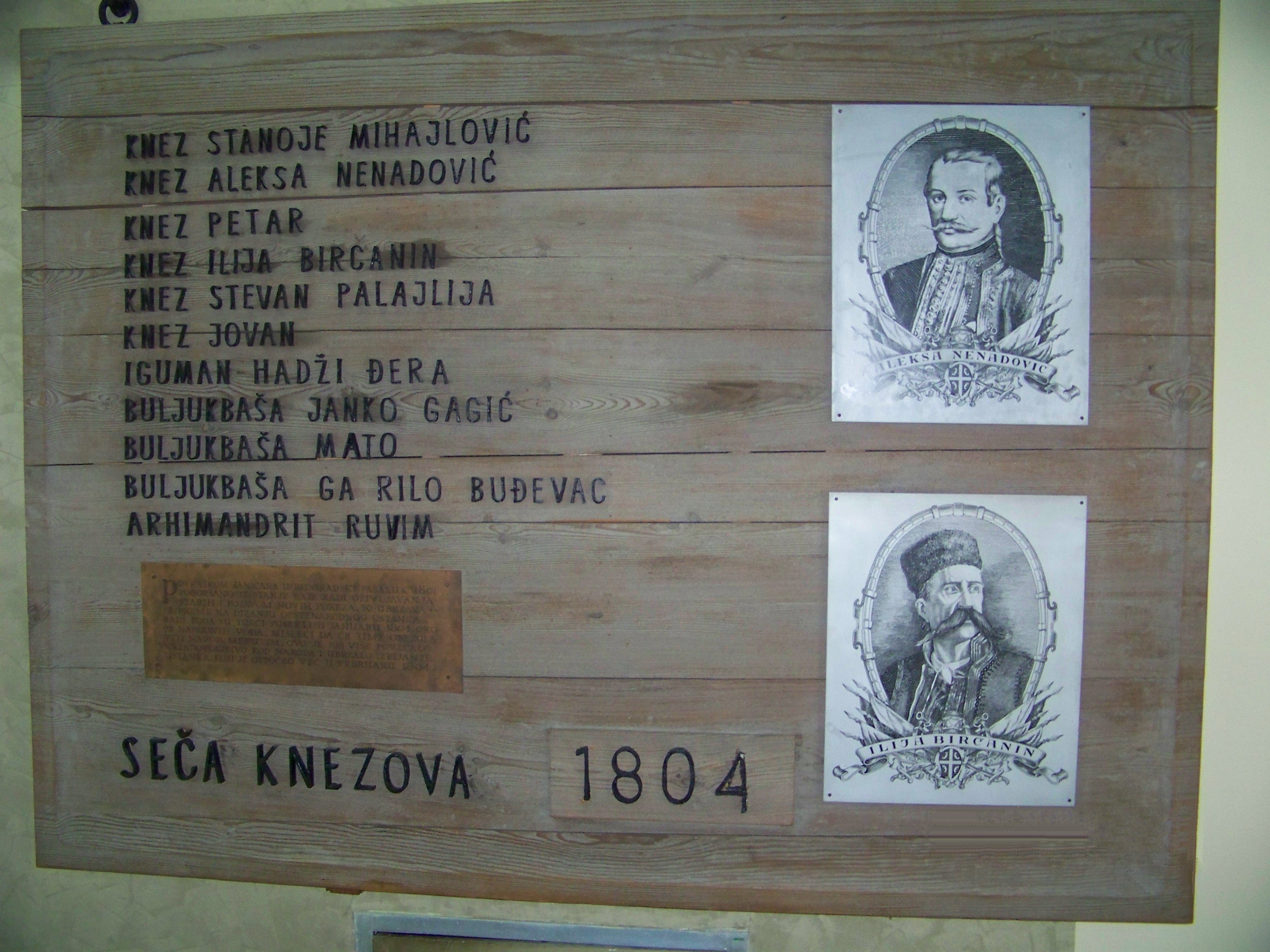 Serbian leaders executed by Turks prior to 1804 uprising.